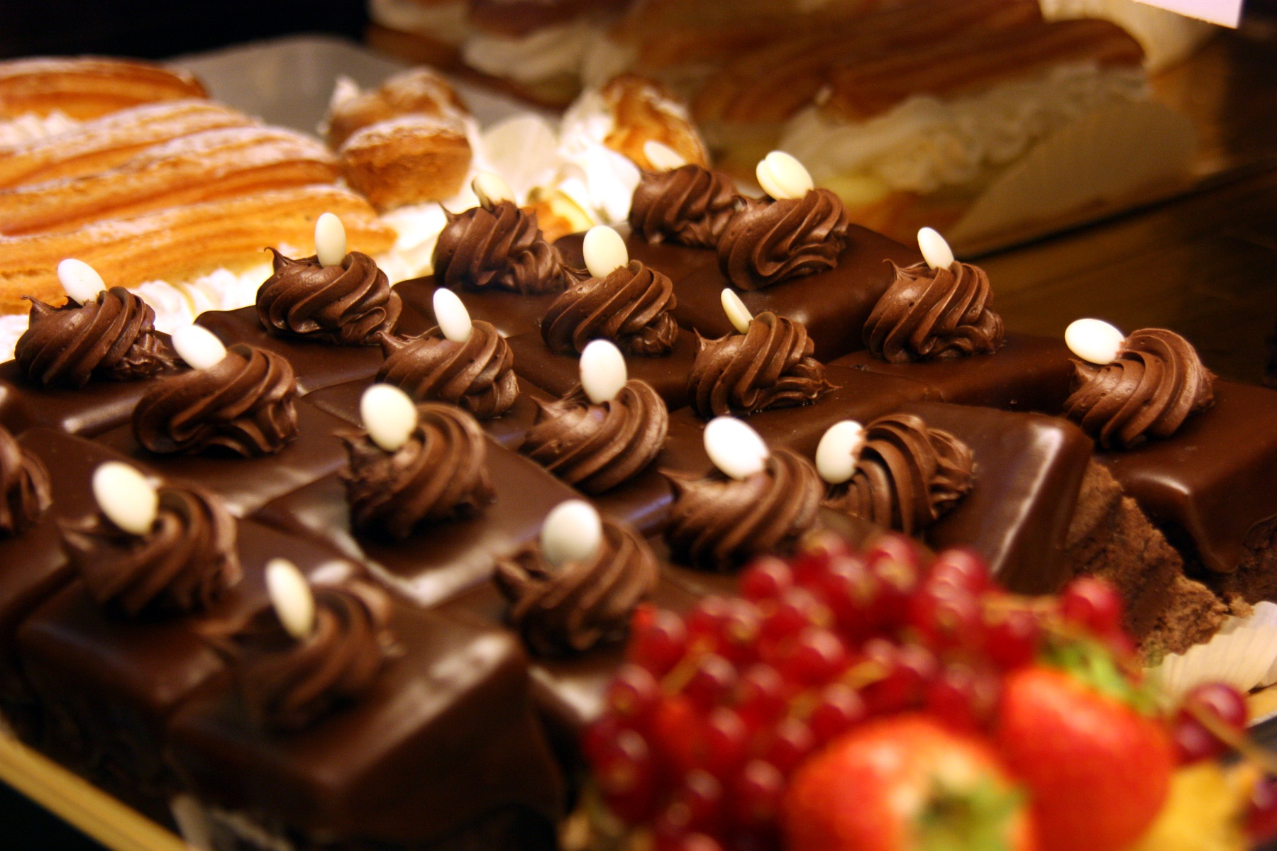 Amandines is the Romanian name, probably of French origin, of those chocolate cakes